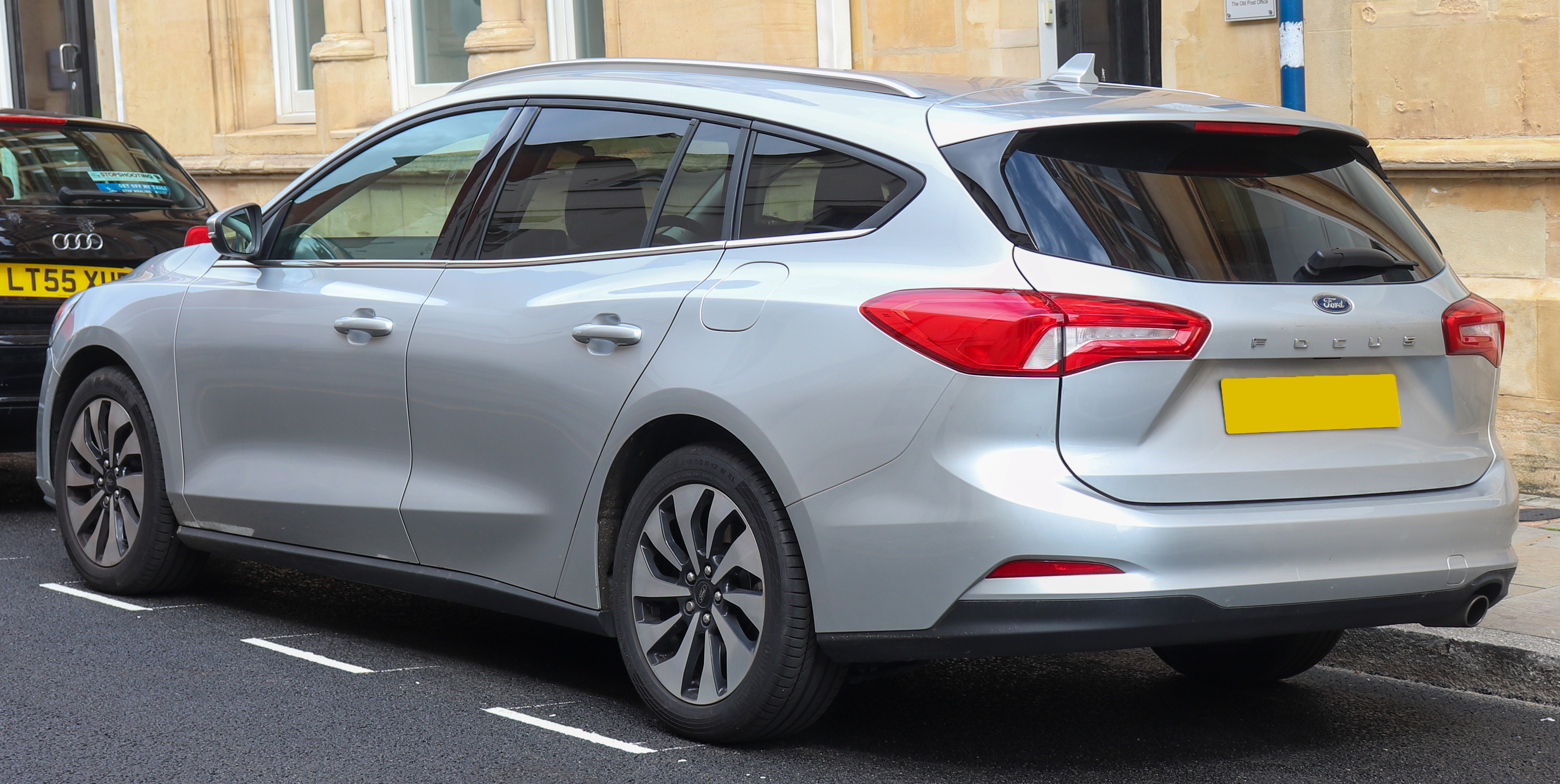 2019 Ford Focus Zetec Estate 1.0 Rear Taken in Warwick